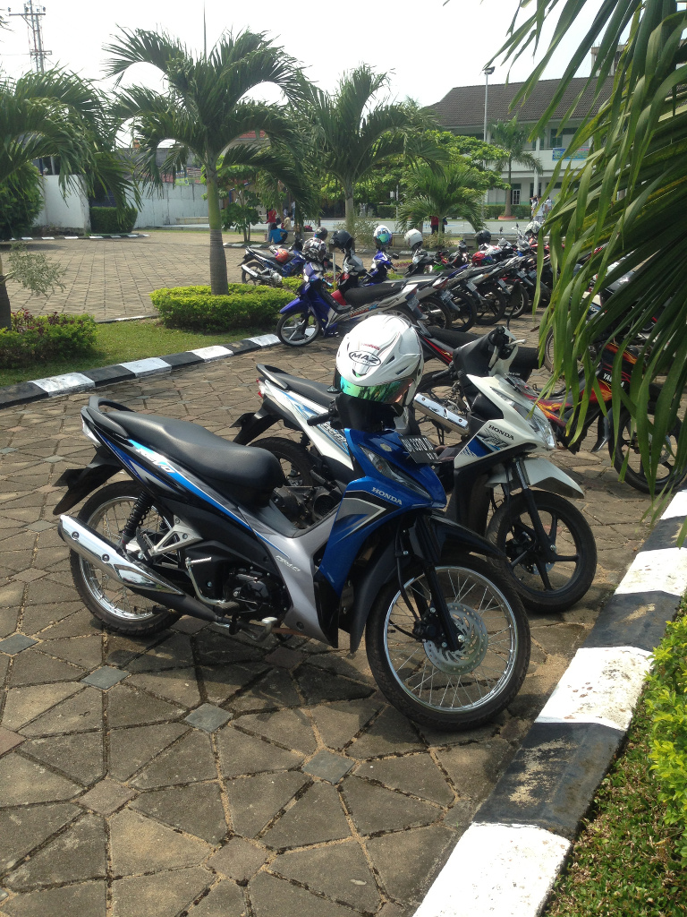 Honda Revo FI STD parked in SMA-SMK Unggul Sakti, this cub for indonesian marketing only, except : Thailand & Malaysia (wait for launching)